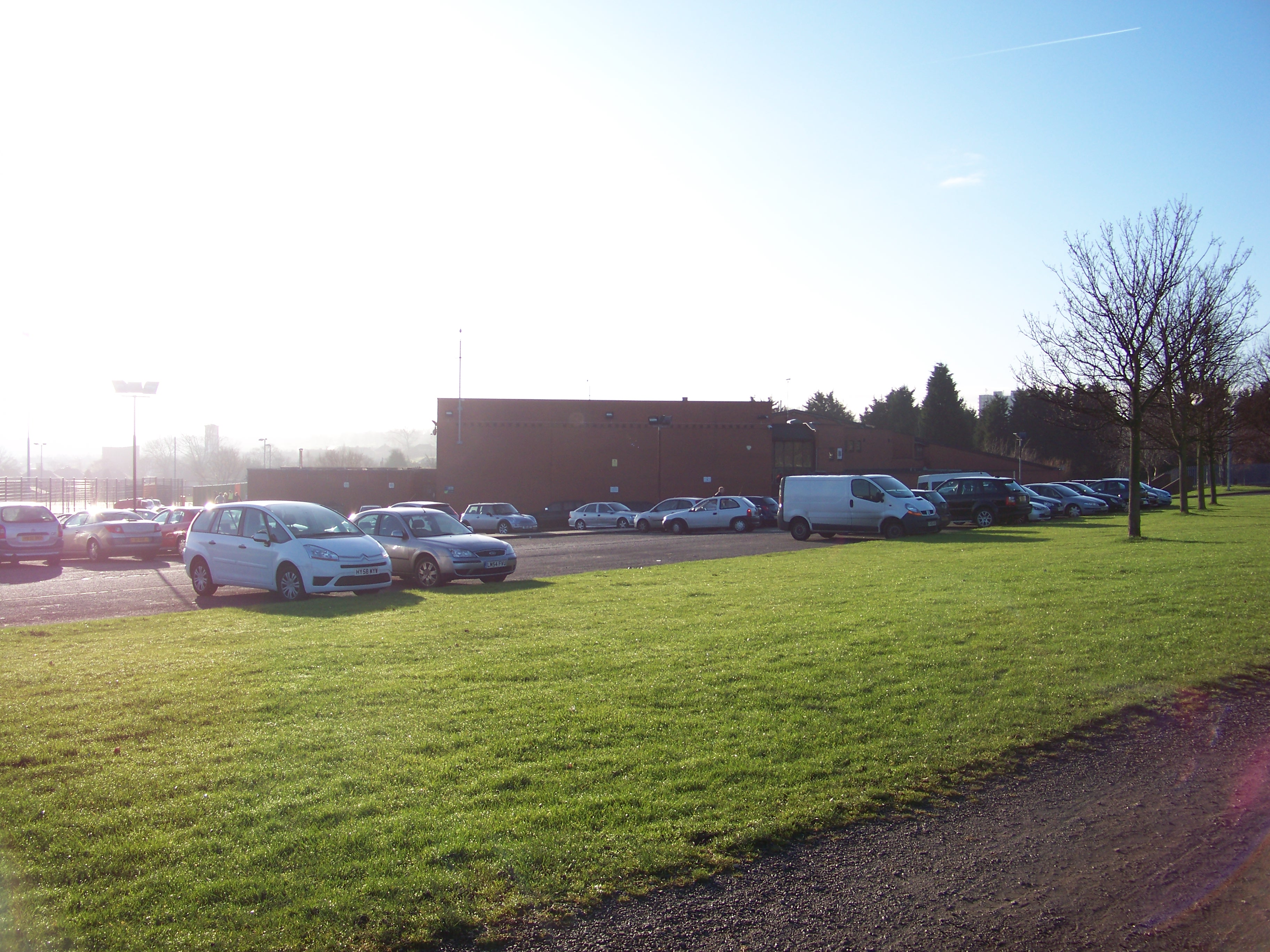 Fearnville Leisure Centre in Fearnville, Leeds, West Yorkshire. The sun has her conspired against me but the focus point of the image is still illustrated. Taken around midday on Saturday the 12th of December 2009.